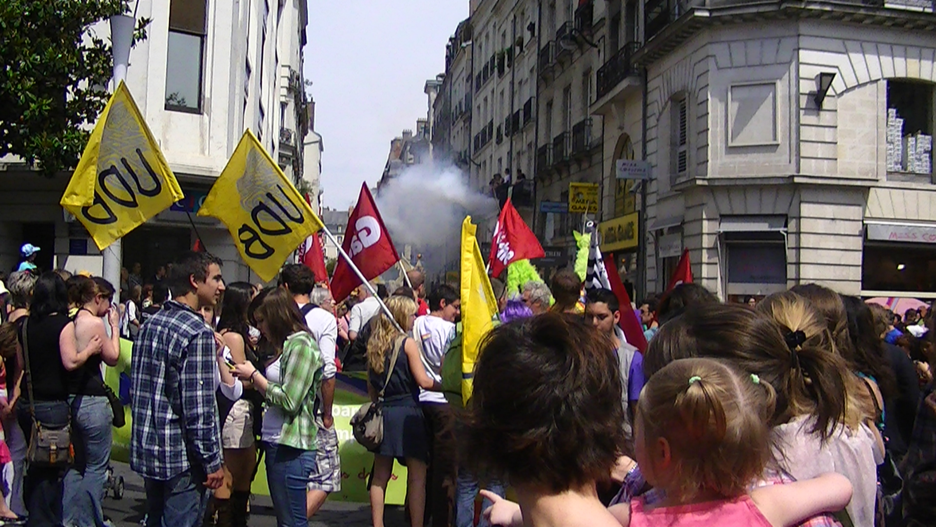 Nantes Gay Pride parade, May 21, 2011